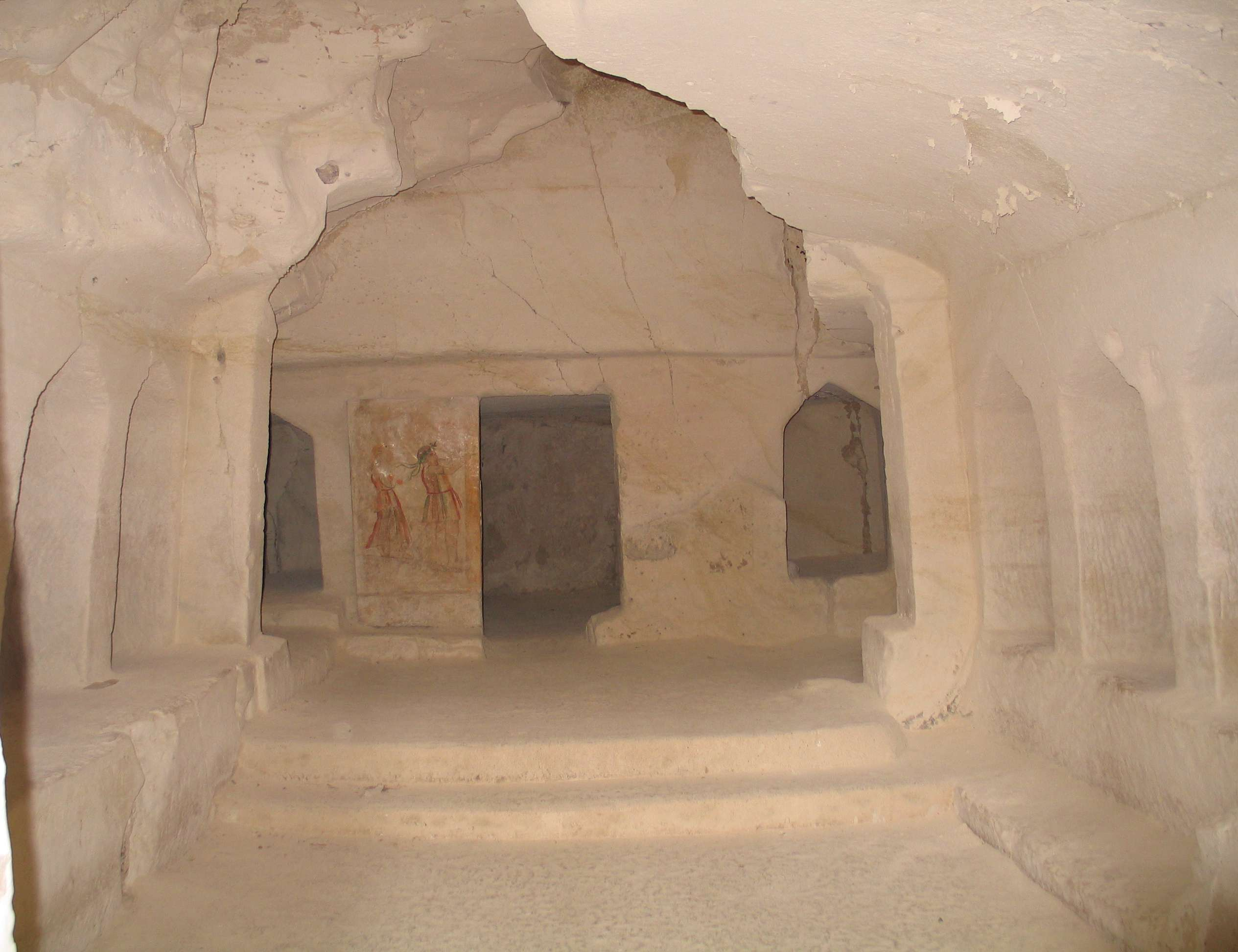 Sidonian burial caves in Beyt Govrin national park, Israel.